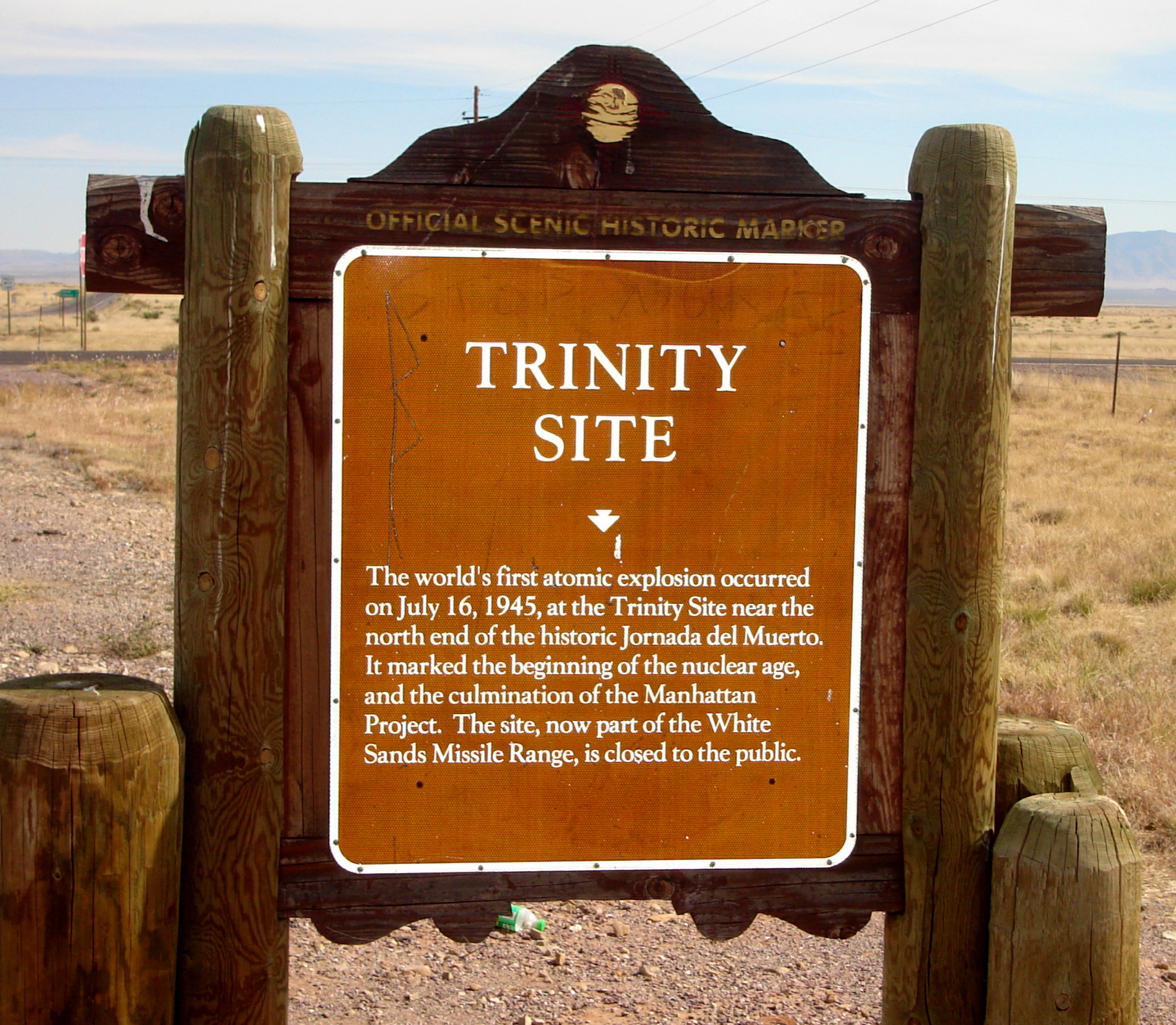 Trinity Site Historical Marker along US 380.